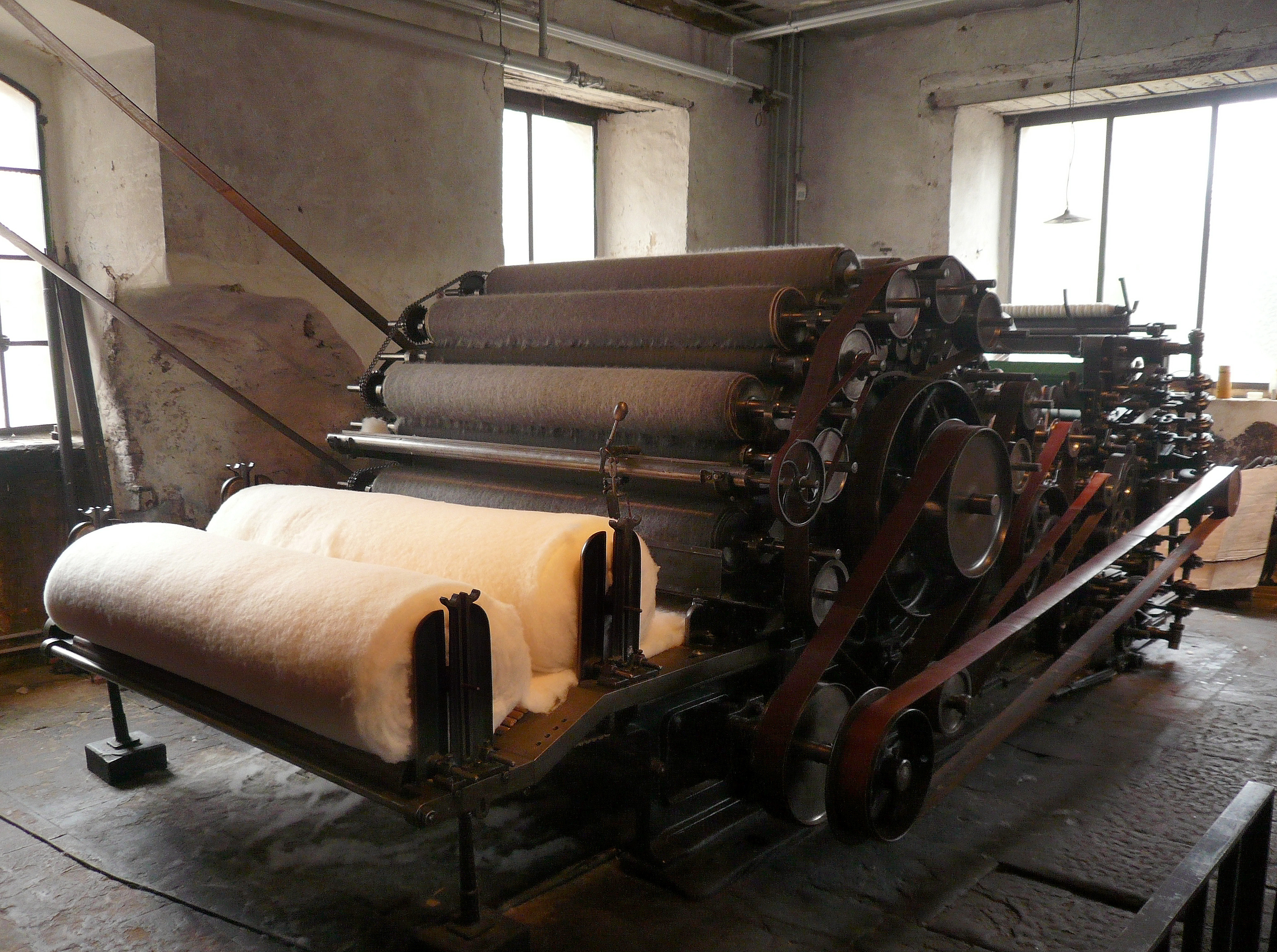 Part of a carding machine (produced by Fa. C.E. Schwalbe, Werdau, 1913) at the LVR Museum of Industry - Mueller Cloth Mill. Fleece is made of tousled wool fibres and then being twisted to create a loose slab yarn for spinning.